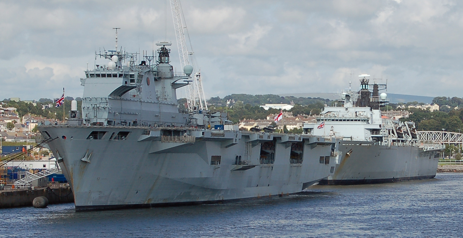 HMS Ocean and HMS Albion moored in Weston Mill lake at the northern end of Devonport dockyard, Plymouth.